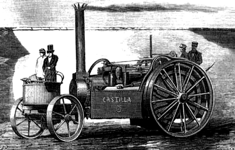 Engraving picture of Spanish Locomobile "Castilla". In 1860 it travelled for 20 days to cover more than 200 kilometres (125 miles) of distance between Valladolid and Madrid, carrying 4 person.